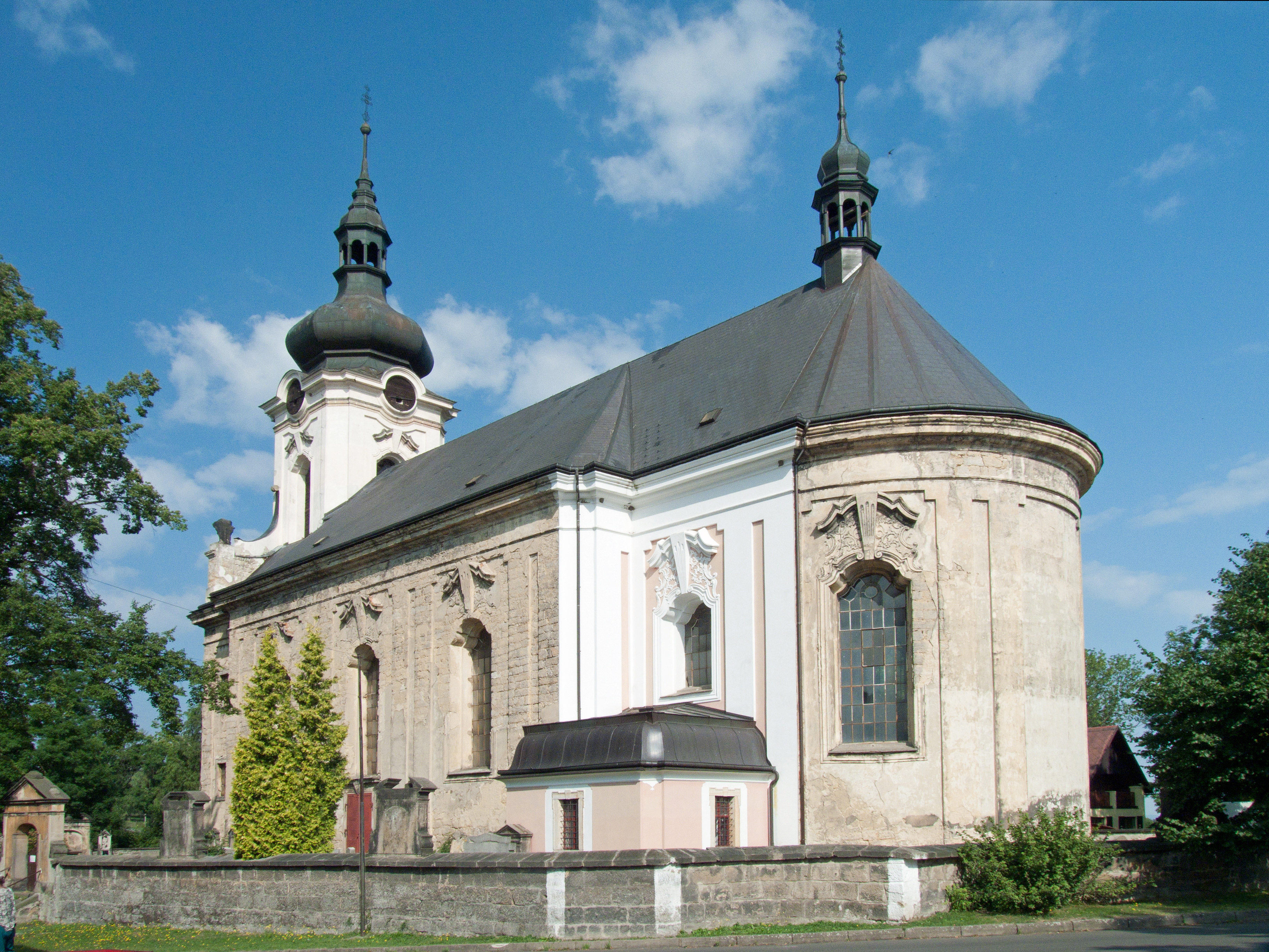 Assumption of Virgin Mary Church in the village of Arnoltice, Děčín District, Czech Republic, as seen from the east